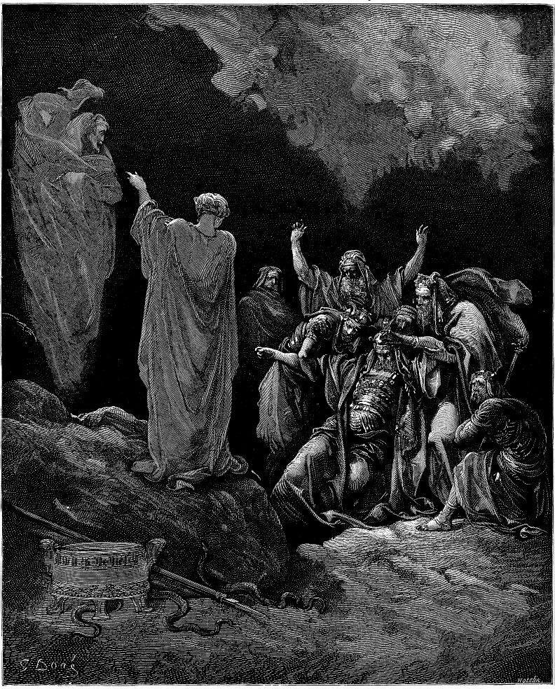 "Saul and the Witch of Endor"